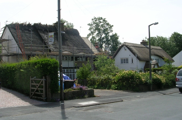 Thatched houses in Westminster Drive, Burn Bridge, North Yorkshire, England.